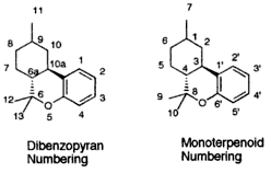 Dibenzopyran and monoterpenoid numbering of tetrahydrocannabinol